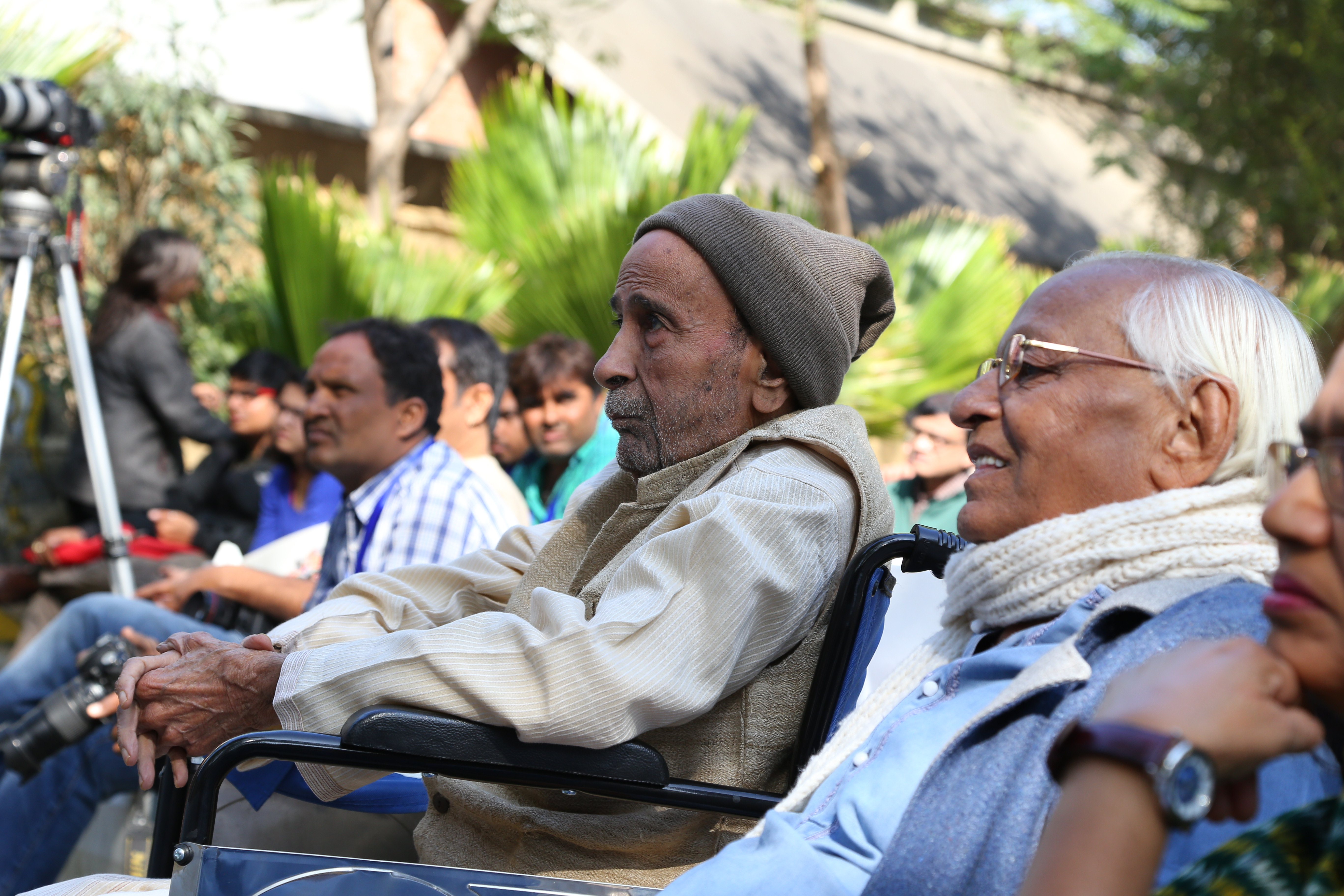 Taarak Mehta and poet Chinu Modi in the inaugural session of 2015 edition.